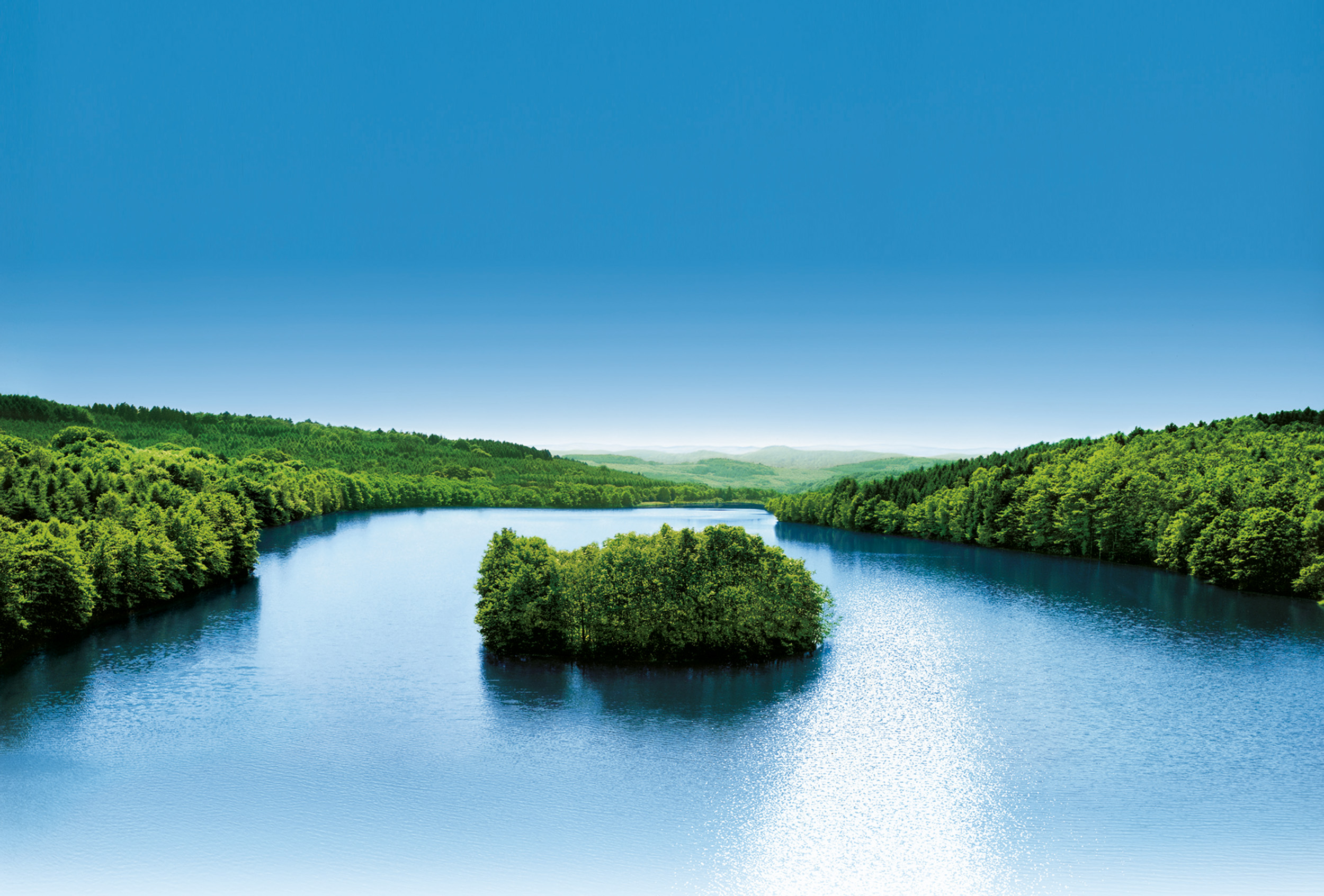 Otto Kasper Promotion Campaign Krombacher